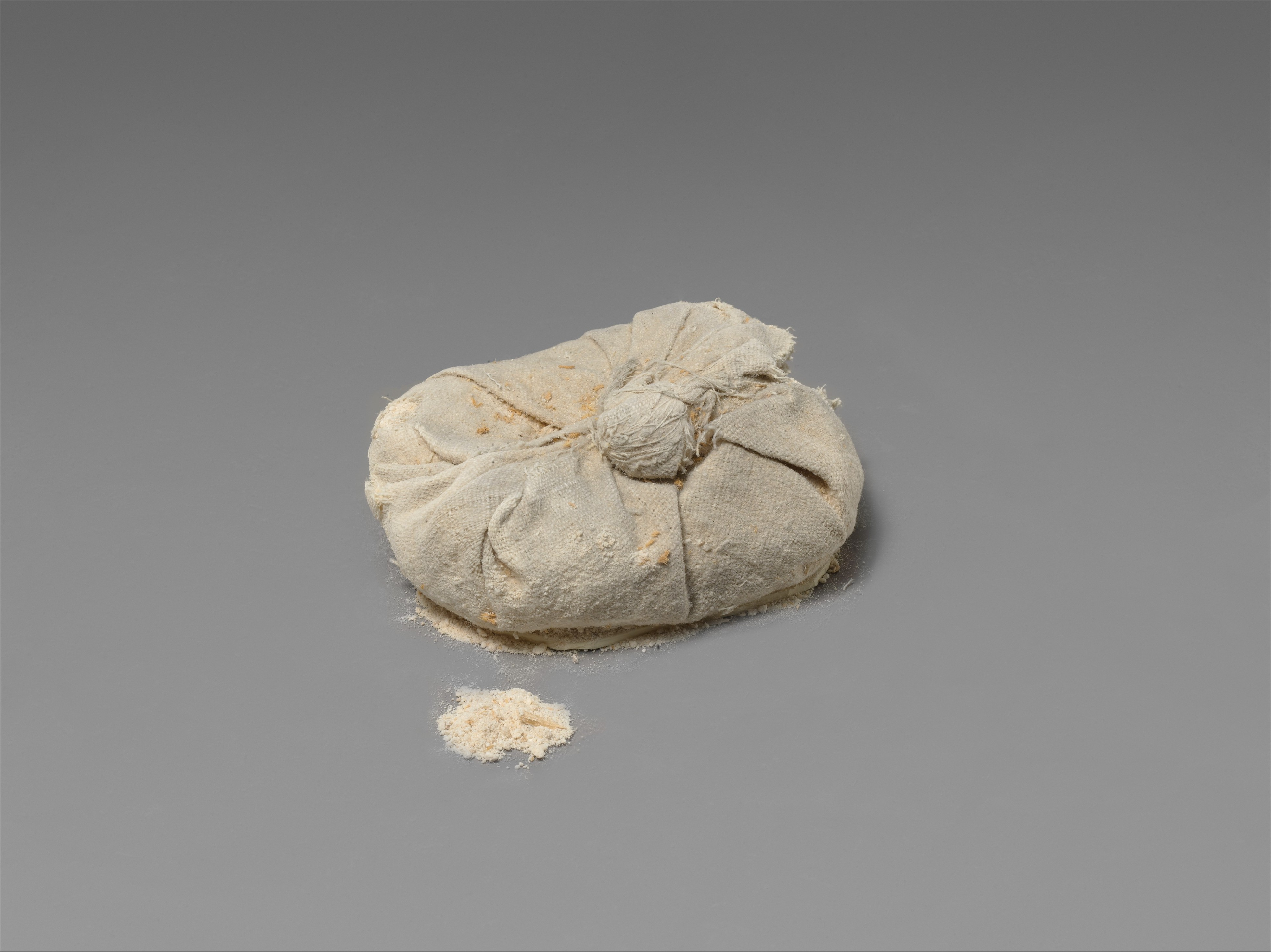 Natron bag